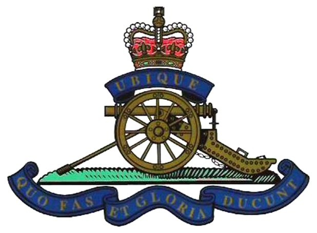 Royal Artillery crest